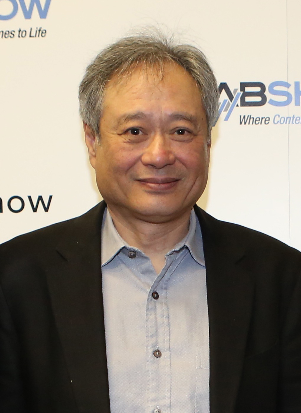 Caption: SMPTE President, Robert Seidel; Ang Lee; SMPTE Executive Director, Barbara Lange, and conference chair Rich Welsh at the 2016 NAB Show's The Future of Cinema Conference, produced in partnership with SMPTE Photo Credit: Robb Cohen Photography courtesy of NAB